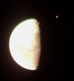 Jupiter several minutes before it disappeared behind the moon on 16 Jun 2005 (taken from Nelson, New Zealand).